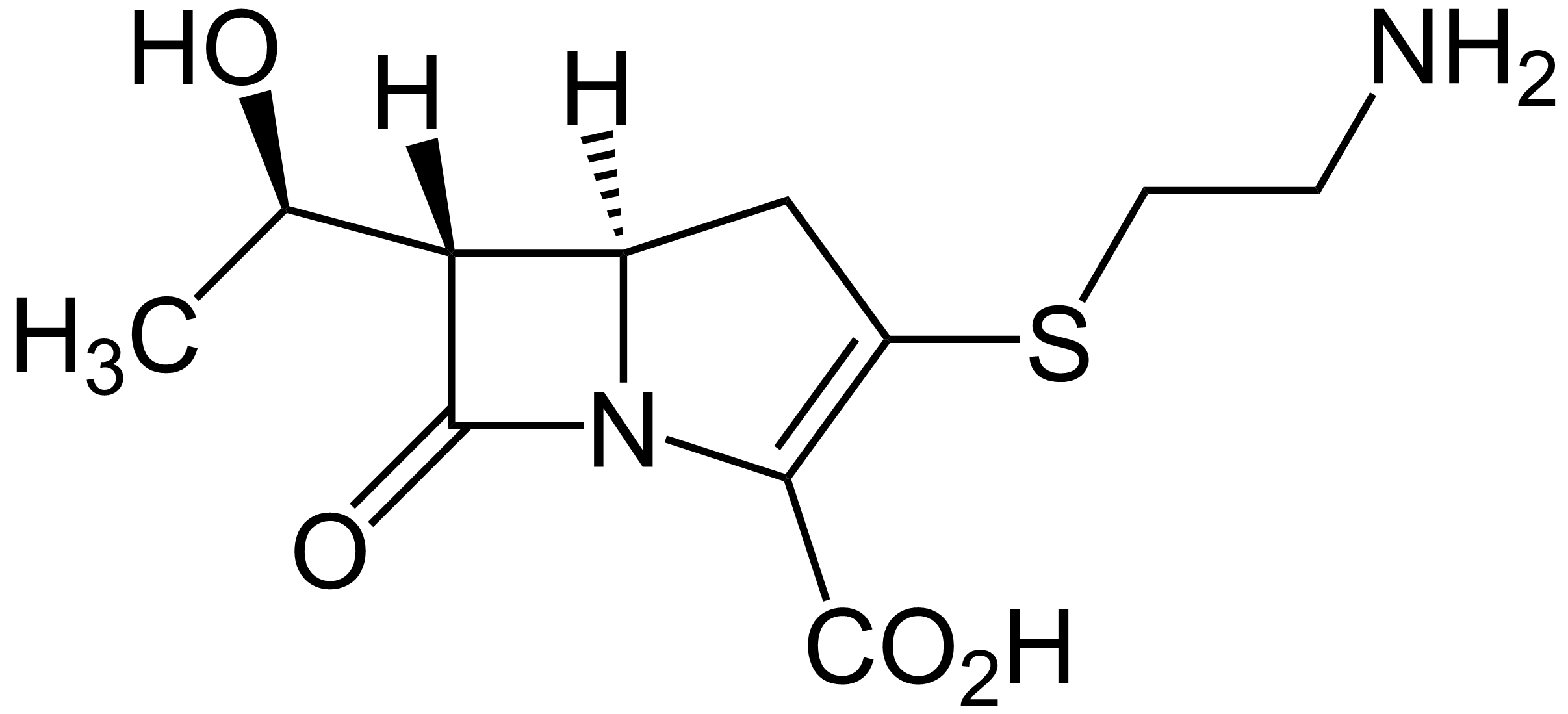 Thienamycin, a naturally-produced antibiotic.